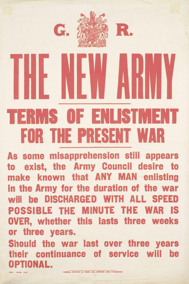 British Army recruitment poster : "THE NEW ARMY. TERMS OF ENLISTMENT FOR THE PRESENT WAR".